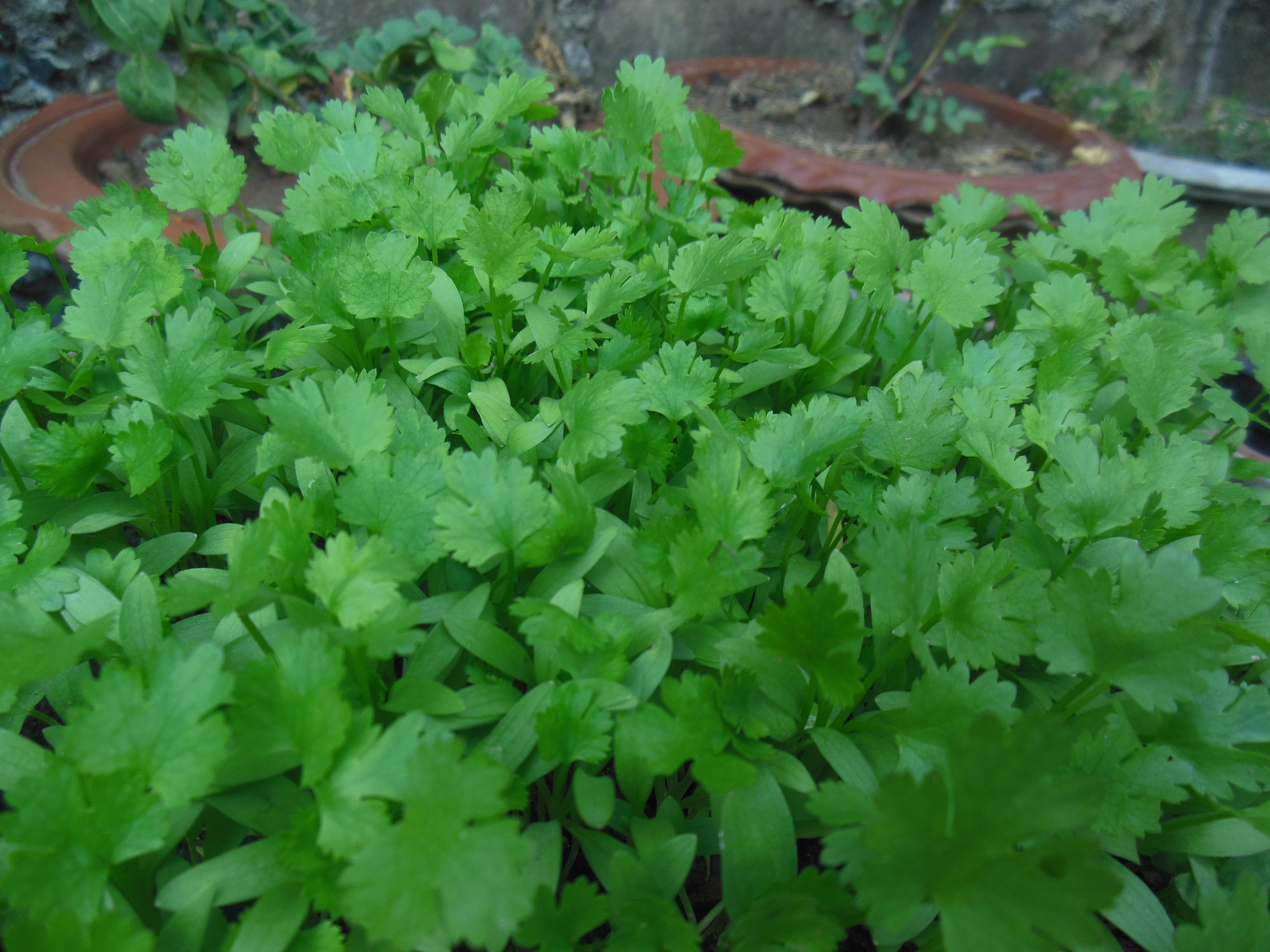 Cilantro growing in the pot